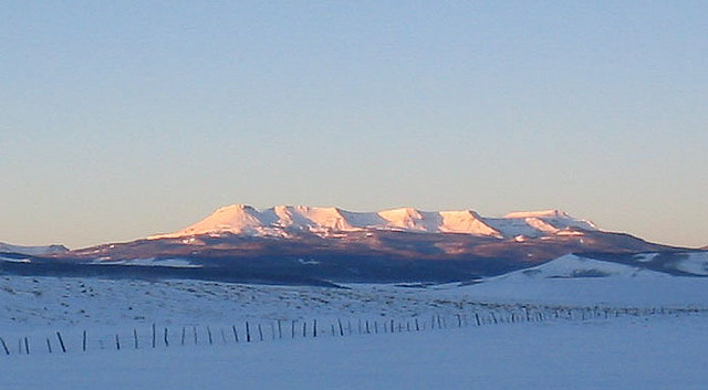 The Flat Tops range west of highway 131, Routt County, CO